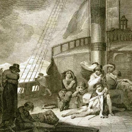 Sir Hugh Willoughby of Risley, Derbyshire (died 1554) was an early English Arctic voyager. He was sent out in 1553, as captain of the Bona Esperanza with two other vessels under his command and with chief pilot Richard Chancellor, by a company of London merchants known as the Company of Merchant Adventurers to New Lands, which later became the Muscovy Company. Sir Hugh Willoughby of Risley, Derbyshire[1] (died 1554) was an early English Arctic voyager. He was sent out in 1553, as captain of the Bona Esperanza with two other vessels under his command and with chief pilot Richard Chancellor, by a company of London merchants known as the Company of Merchant Adventurers to New Lands, which later became the Muscovy Company. Sir Hugh Willoughby of Risley, Derbyshire[1] (died 1554) was an early English Arctic voyager. He was sent out in 1553, as captain of the Bona Esperanza with two other vessels under his command and with chief pilot Richard Chancellor, by a company of London merchants known as the Company of Merchant Adventurers to New Lands, which later became the Muscovy Company.